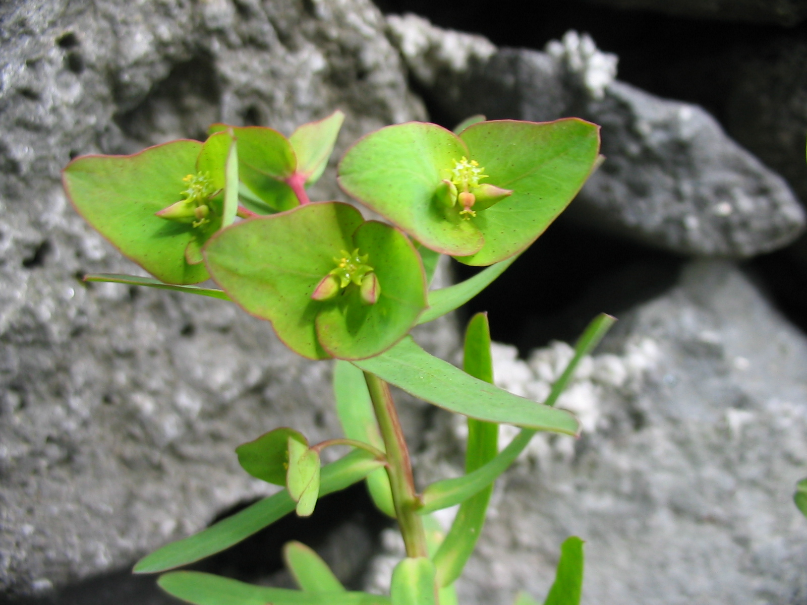 Azoreanische Wolfsmilch (Euphorbia azorica) - Flower